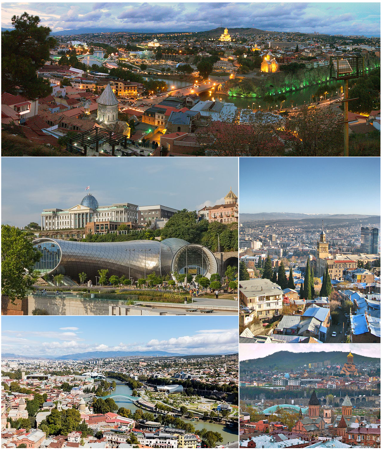 Tbilisi collage